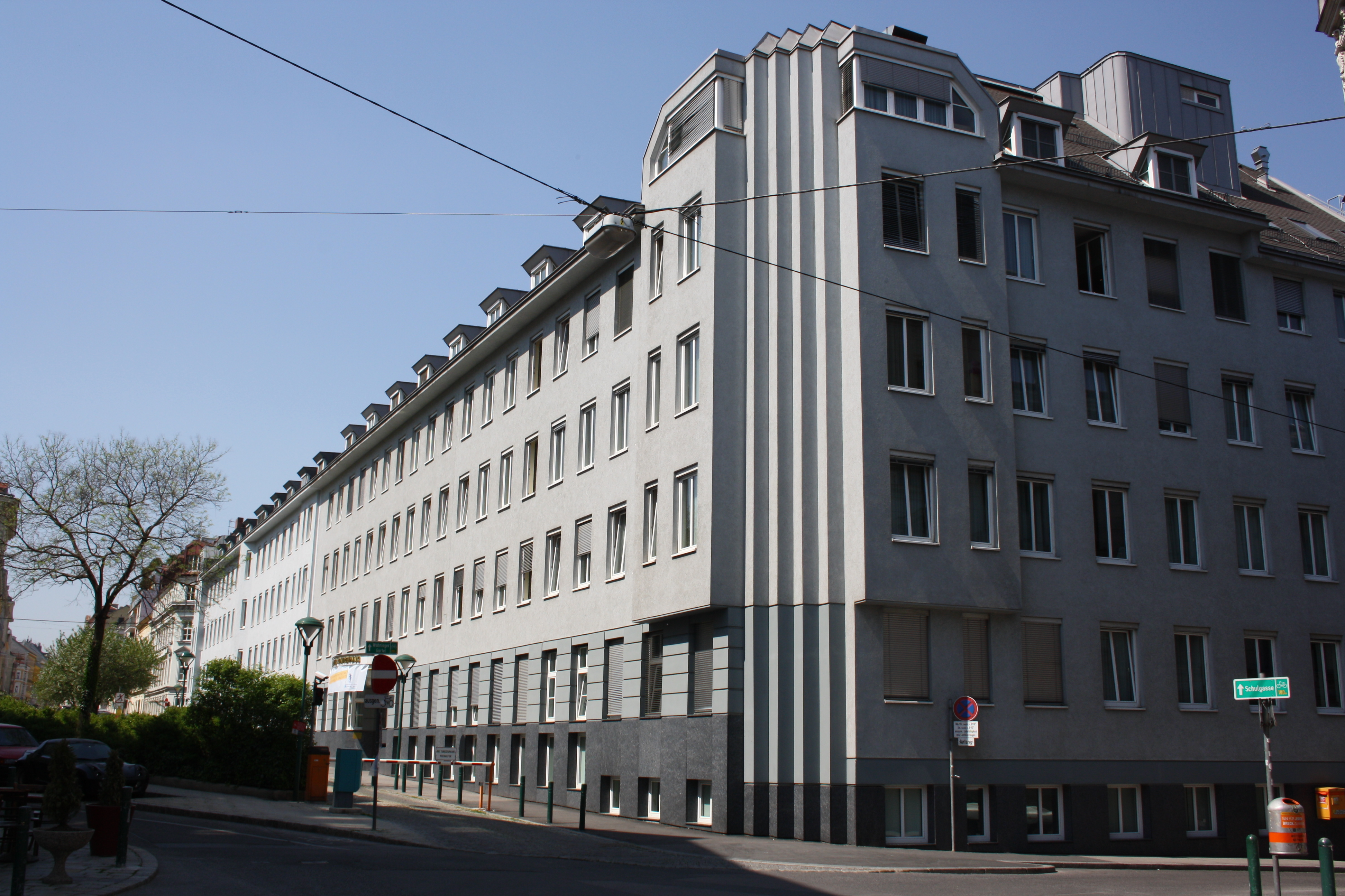 Protestant Hospital in Vienna, 18th district